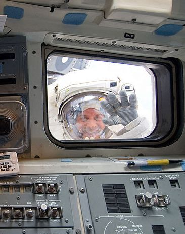 NASA astronauts Michael Good (left) and Garrett Reisman, both STS-132 mission specialists, look through the aft flight deck windows of space shuttle Atlantis during the mission's third and final session of extravehicular activity (EVA) as construction and maintenance continue on the International Space Station.